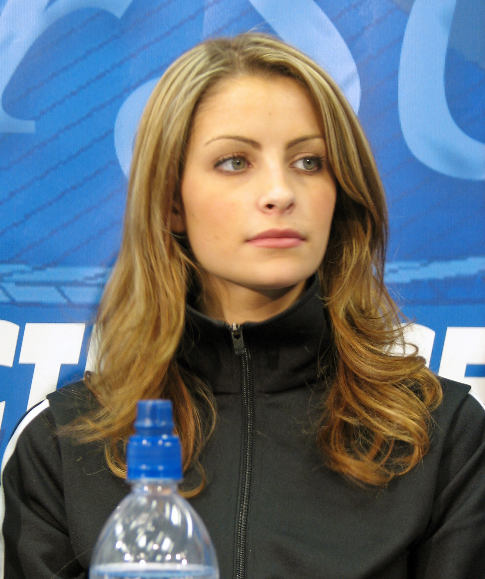 Photo of figure skater Tanith Belbin.